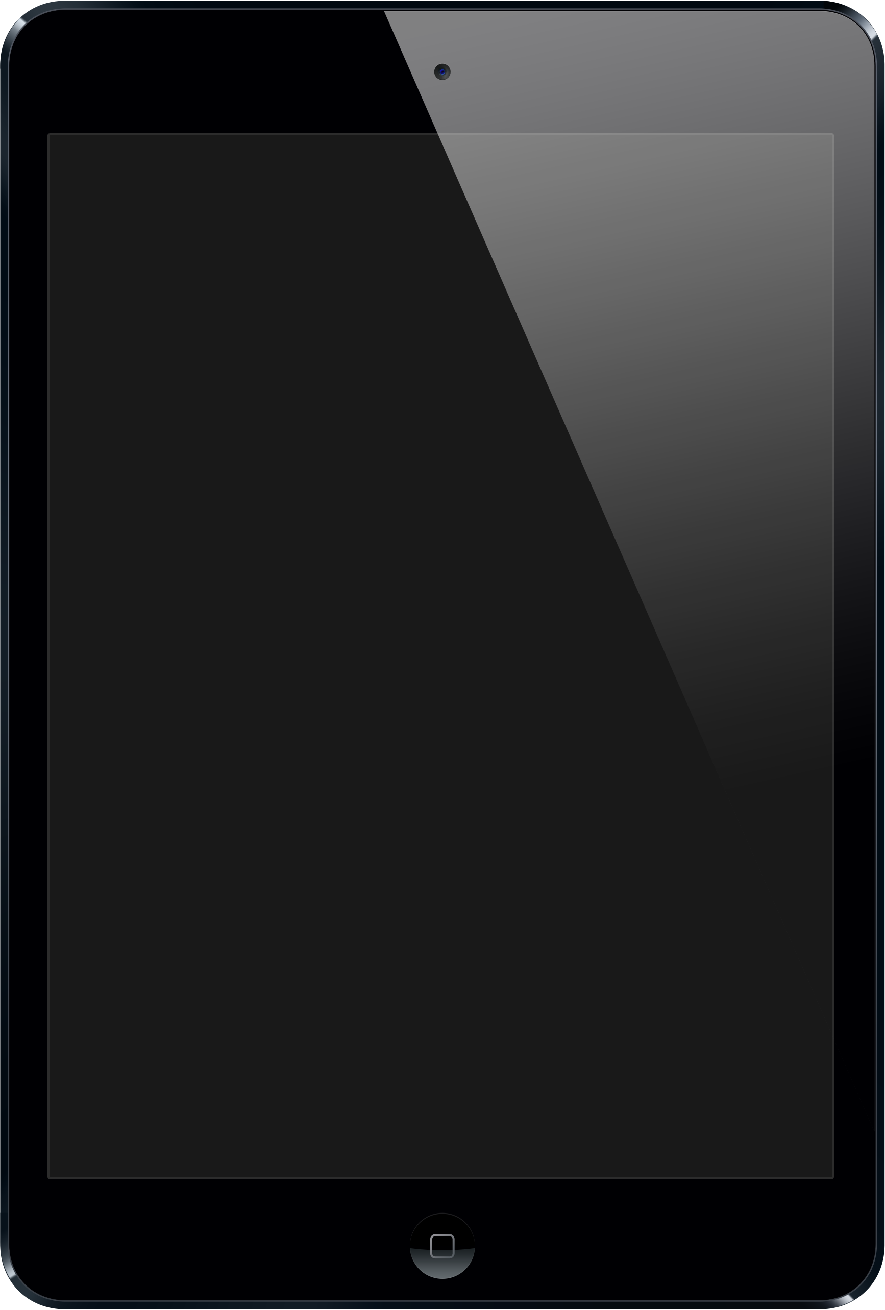 A mockup of an Apple iPad Air.